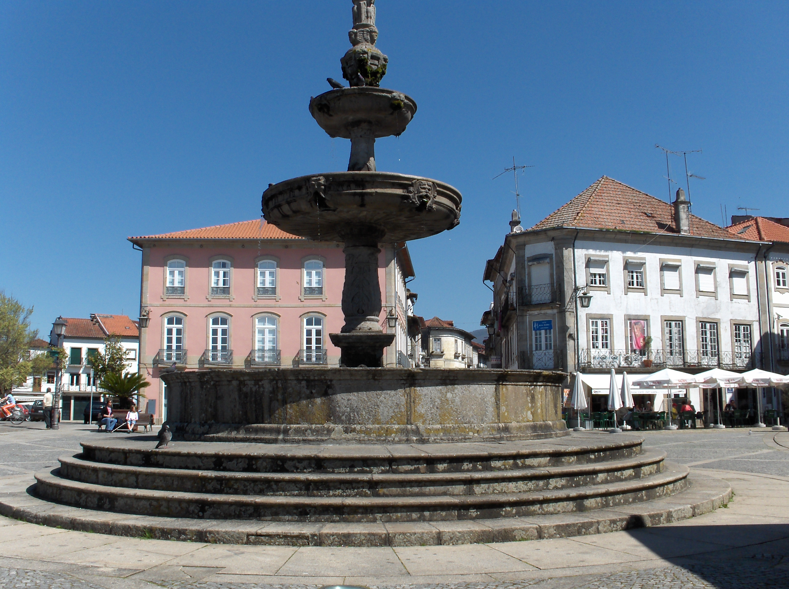 PONTE DE LIMA, 2006 (i am the author of this work)